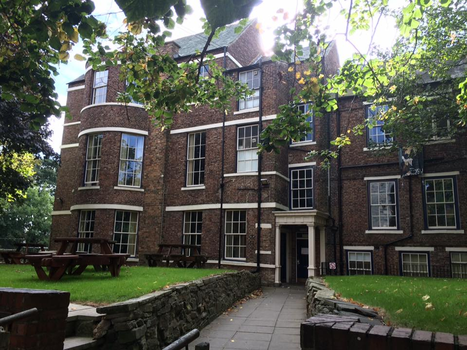 a frontal view of the rectory building at hatfield college, durham